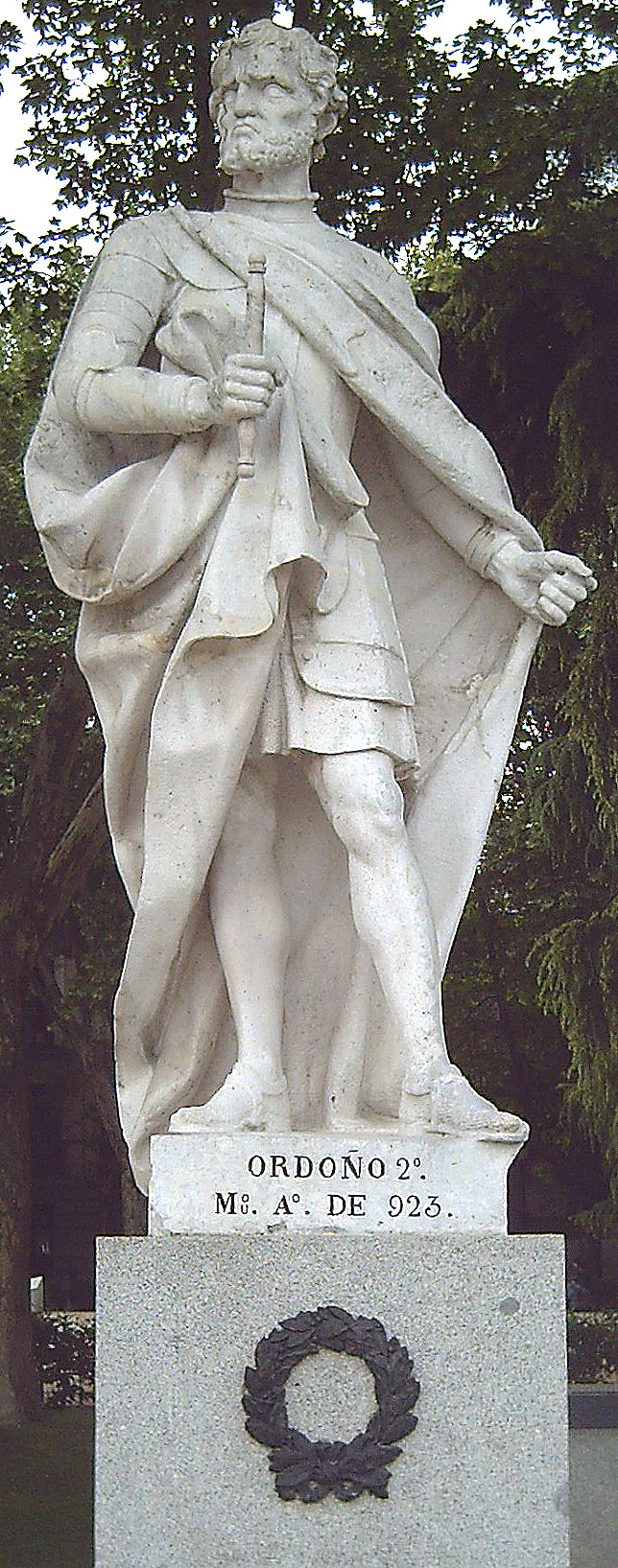 Statue of Ordoño II of León († 924) at the Plaza de Oriente (square) in Madrid (Spain). Sculpted in white stone by Luis Salvador Carmona (1709–1767) between 1750 and 1753.